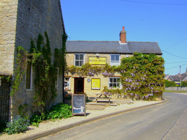 Kings Head, Fritwell Wide range of excellent beers sold with mighty enthusiasm and knowledge.